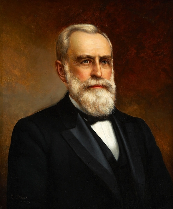 Portrait of William Dunbar Holder by Andres Molinary, 1904, at the Mississippi Hall of Fame portrait gallery, The Old Capitol Museum, Second Floor, Senate Chamber, Mississippi Department of Archives and History